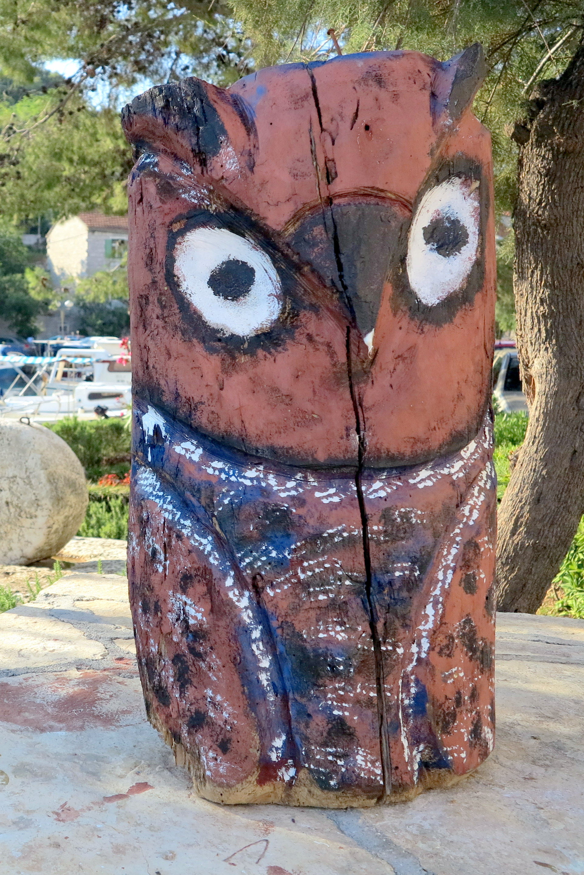 Symbolized symbol of Solta, the scops owl (čuvita) in Stomorska on the island Šolta / Croatia / Adriatic Sea. View to the east.